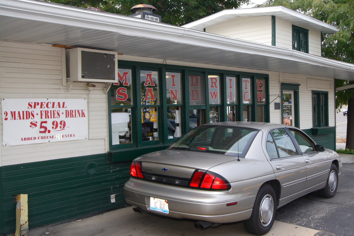 Maid-Rite sandwich shop. This store housed the USA's first drive-thru window (est. 1921). It is on the National Register of Historic Places as incorporated in 1924, Springfield, Illinois.